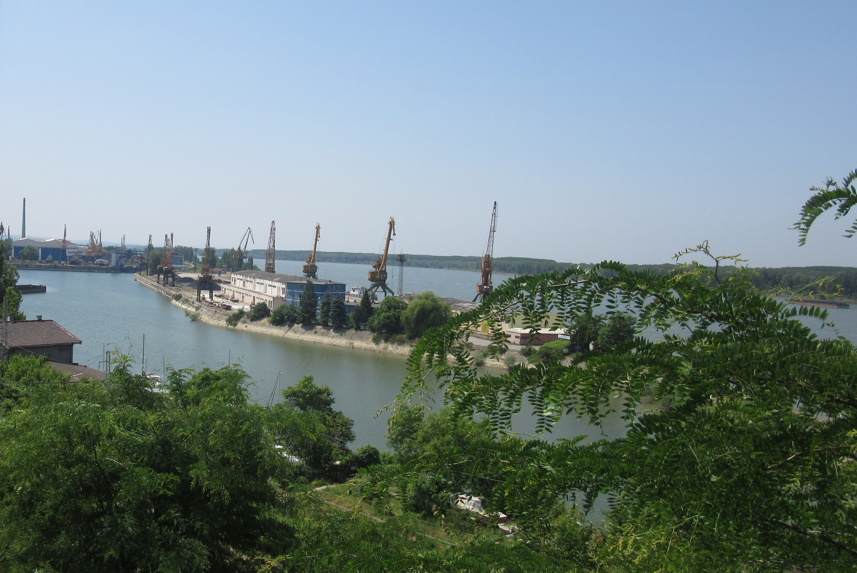 Port Ruse-West